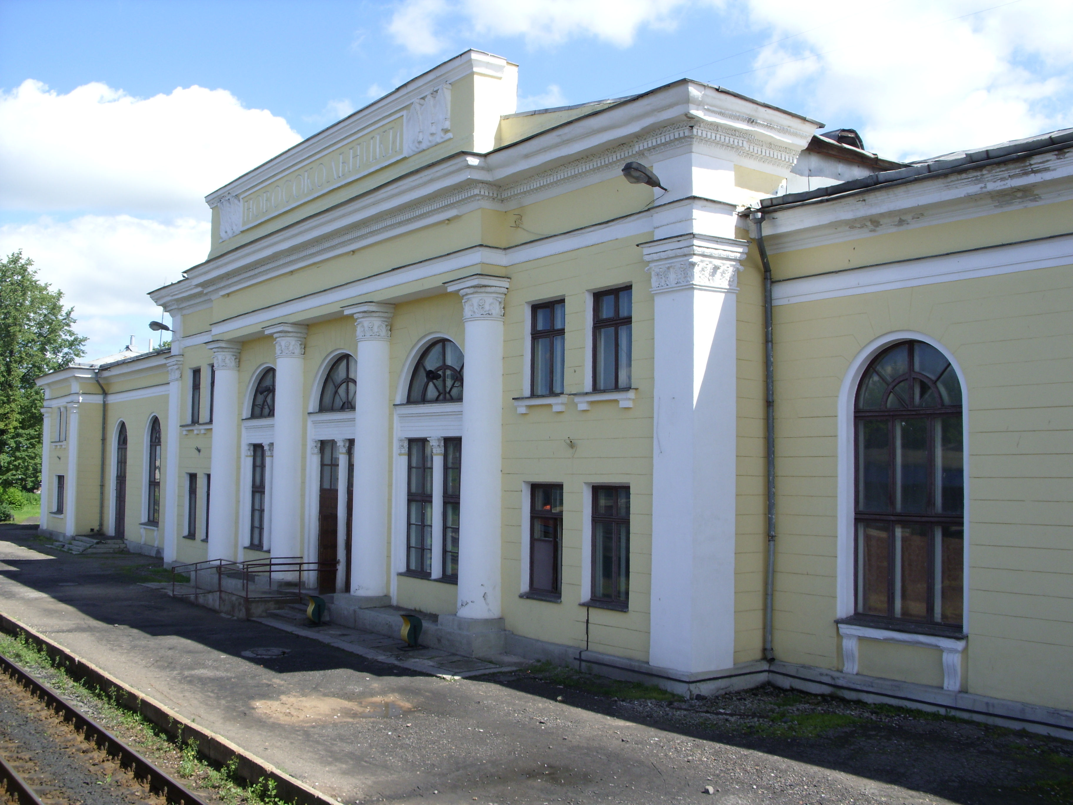 Novosokolniki_Vokzal_ijun2010-1